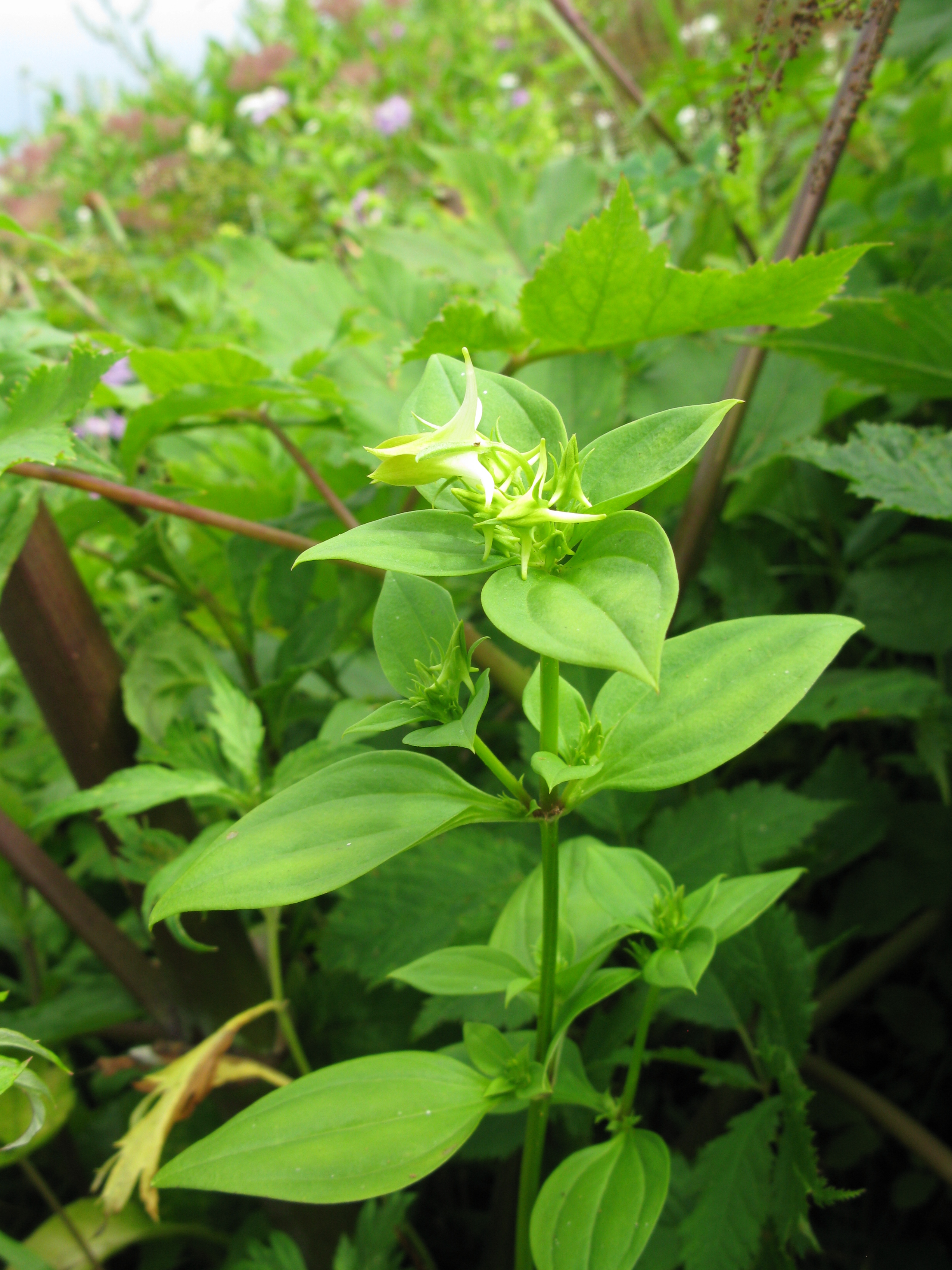 Halenia corniculata, Mt. Bandaisan, Fukushima pref., Japan